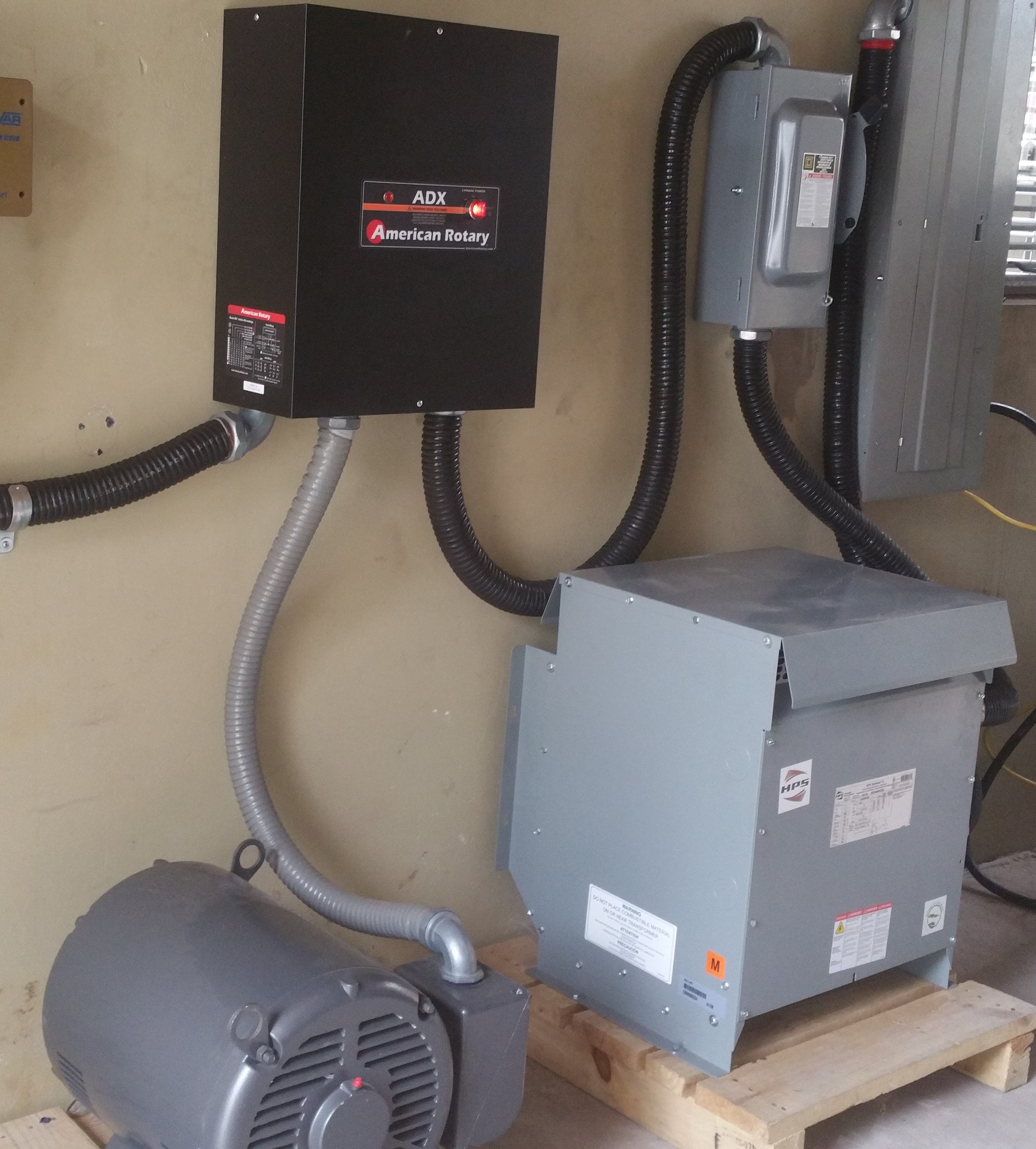 American Rotary Photo with a transformer